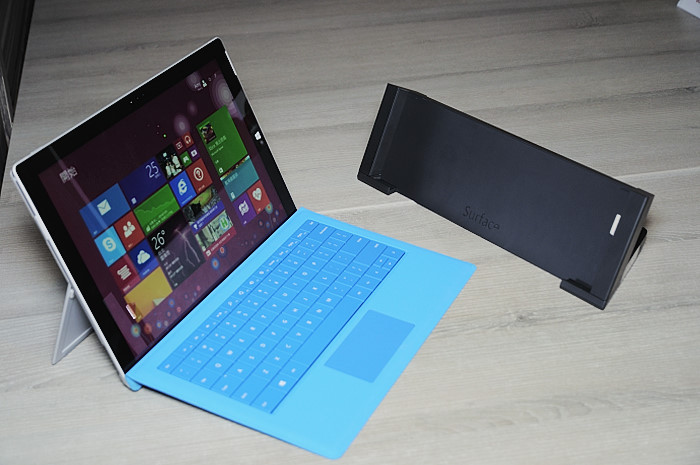 Surface Pro 3 with Docking Station